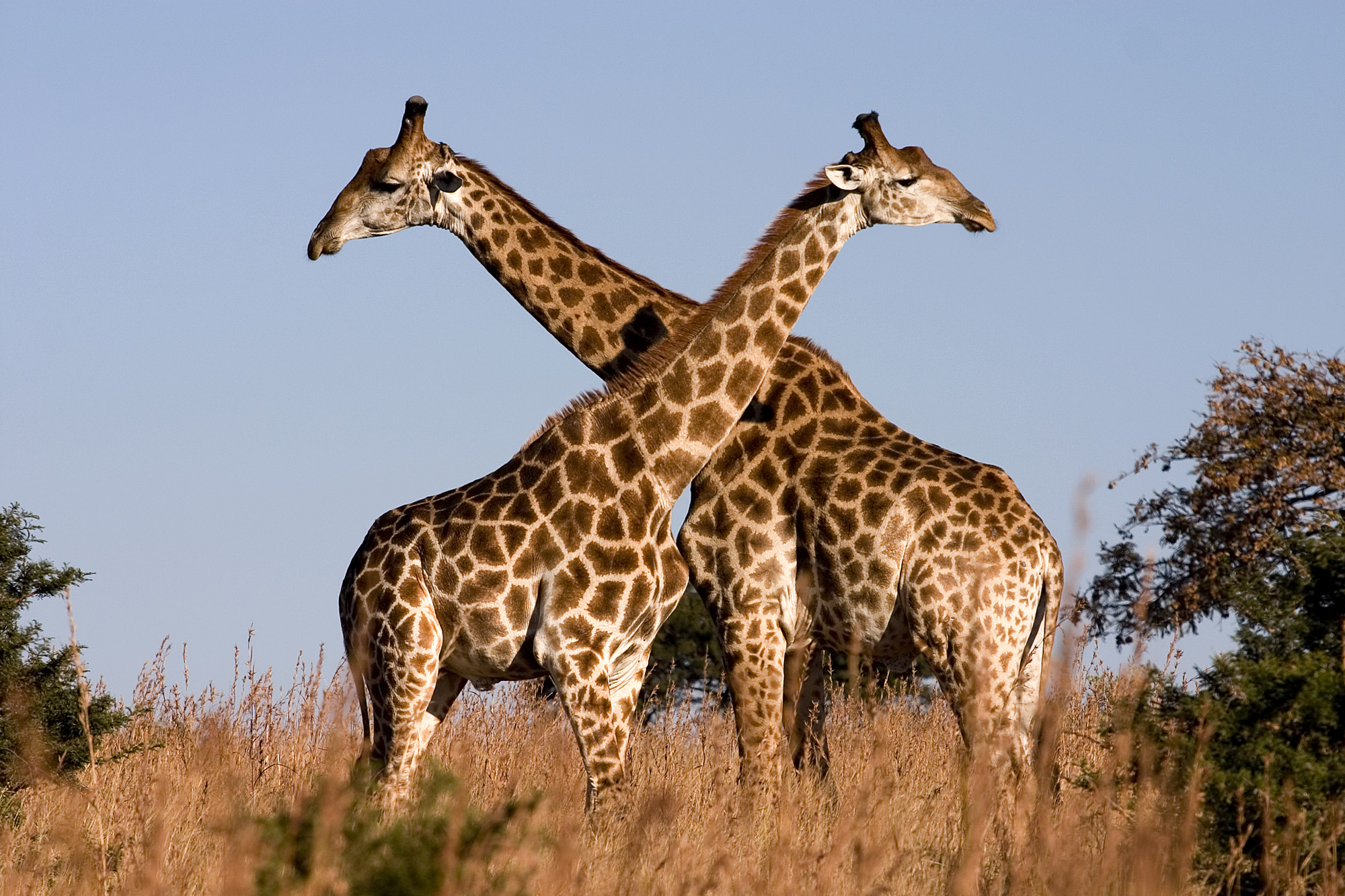 Fighting giraffes in Ithala Game Reserve, northern KwaZulu-Natal, South Africa